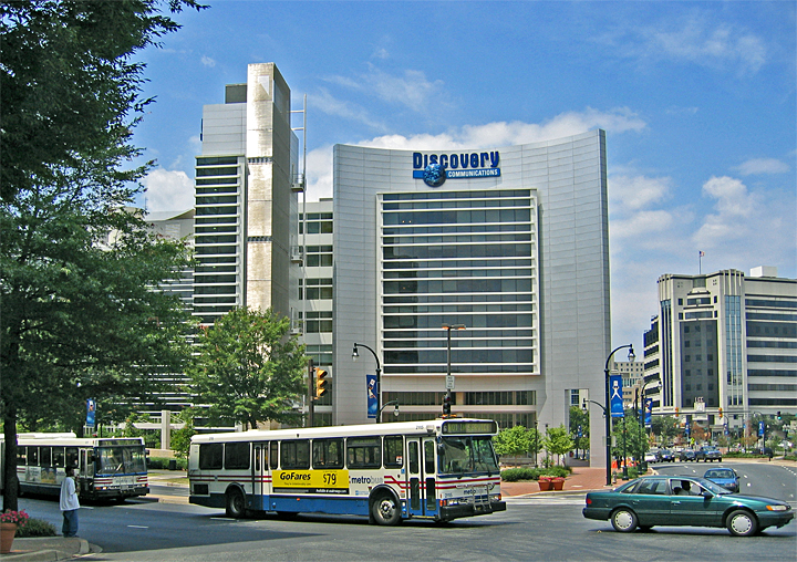 Heavily used bus lines, metro rail and commuter rail, make Discovery's headquarters in Downtown Silver Spring very Transit accessible.